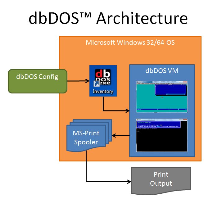 This is a high-level overview of the architecture used in dbDOS.